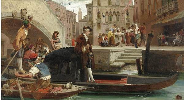 Carlo Goldoni Seeking Inspiration From Life